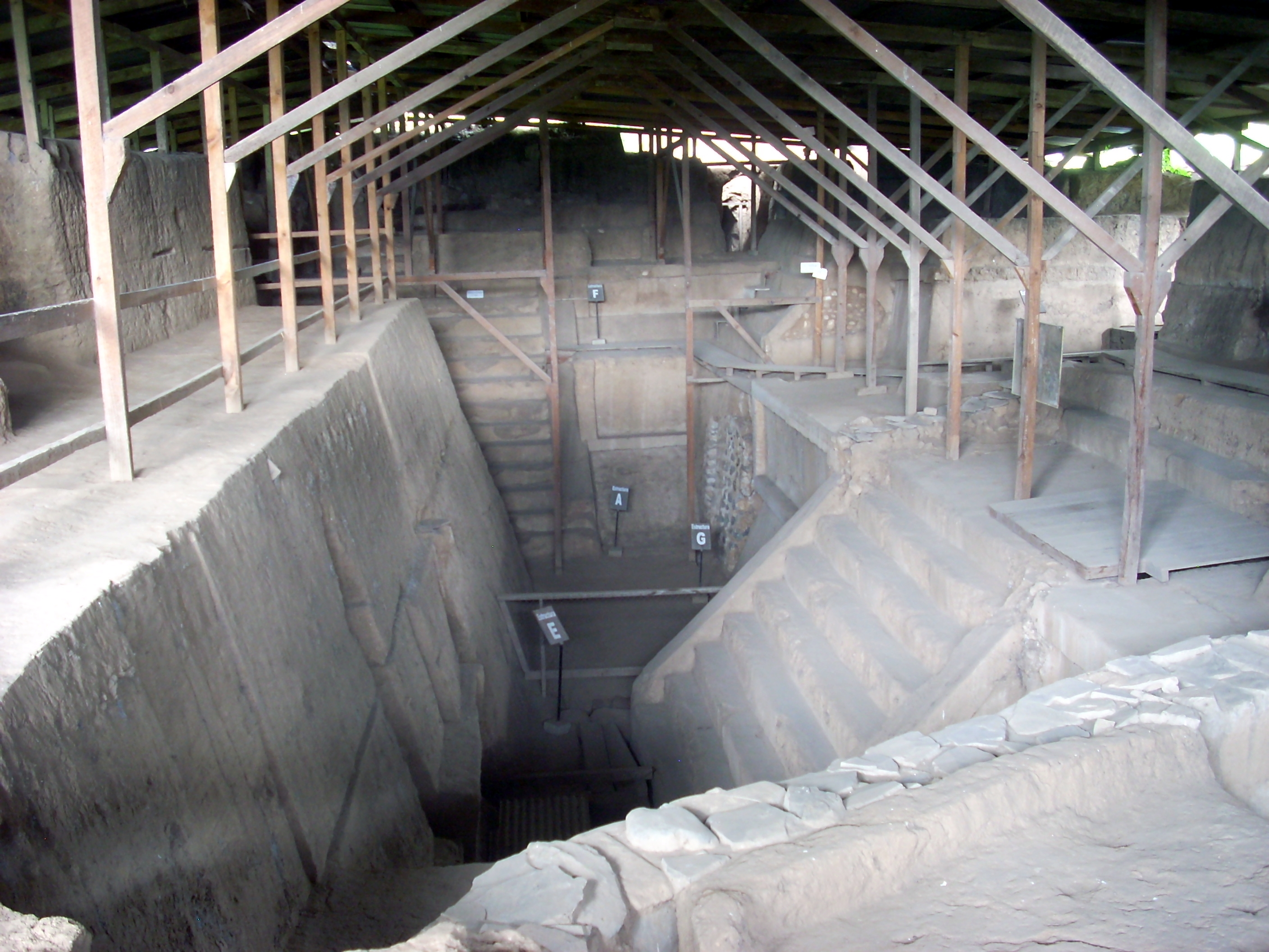 Excavated section of the Acropolis. Kaminaljuyu, Guatemala City.